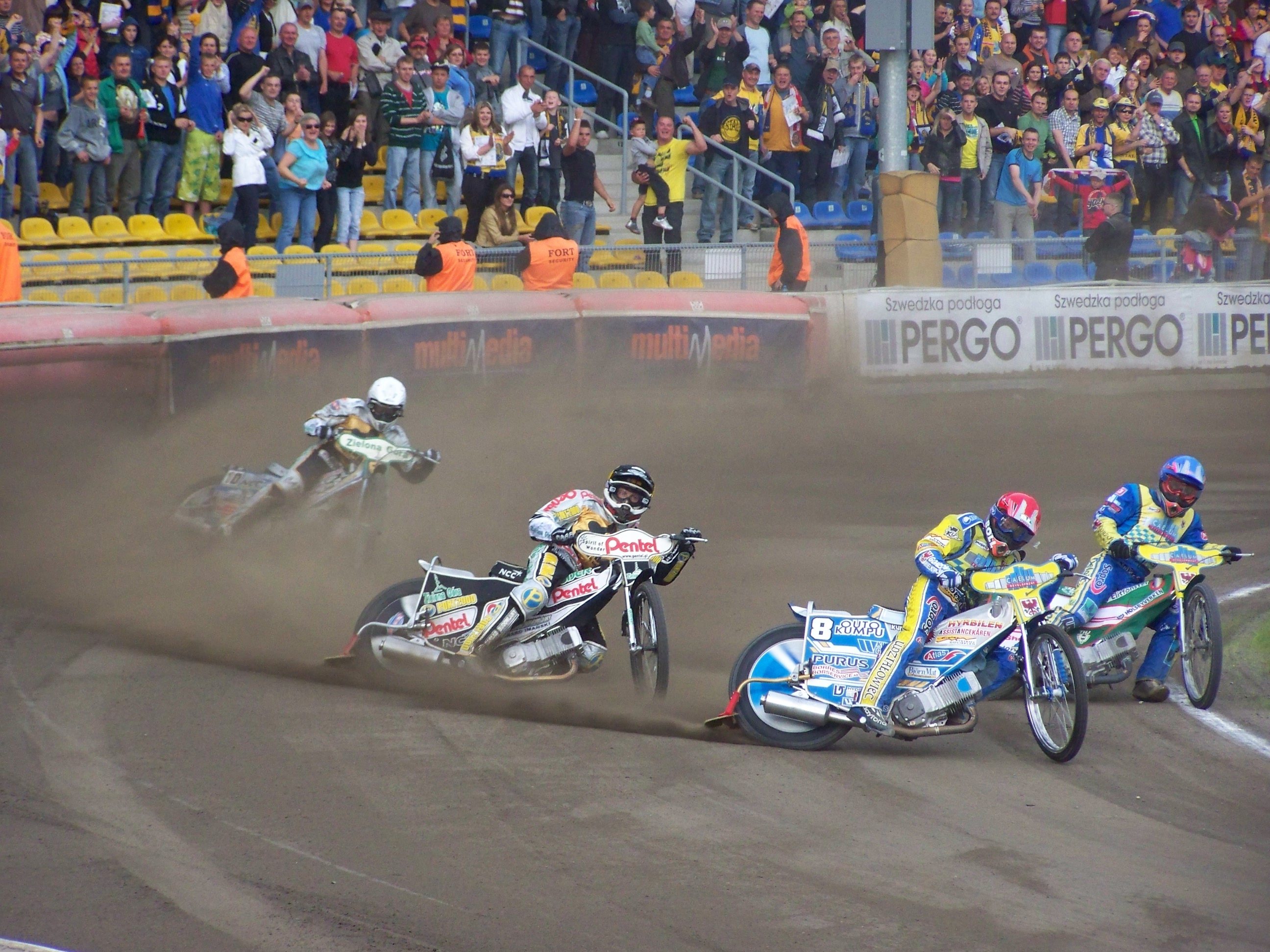 Speedway match in polish league between Stal Gorzów and Falubaz Zielona Góra on June 21 2009.white helmet - Fredrik Lindgren,yellow helmet - Piotr Protasiewicz (both Zielona Góra),red helmet - Rune Holta,blue helmet - Thomas H. Jonasson (both Gorzów).